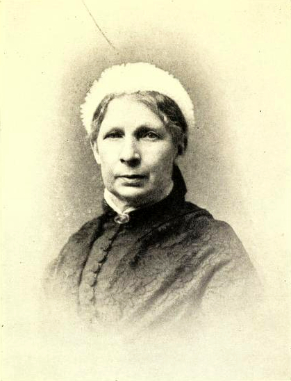 Elizabeth Shaw Melville, wife of Herman Melville